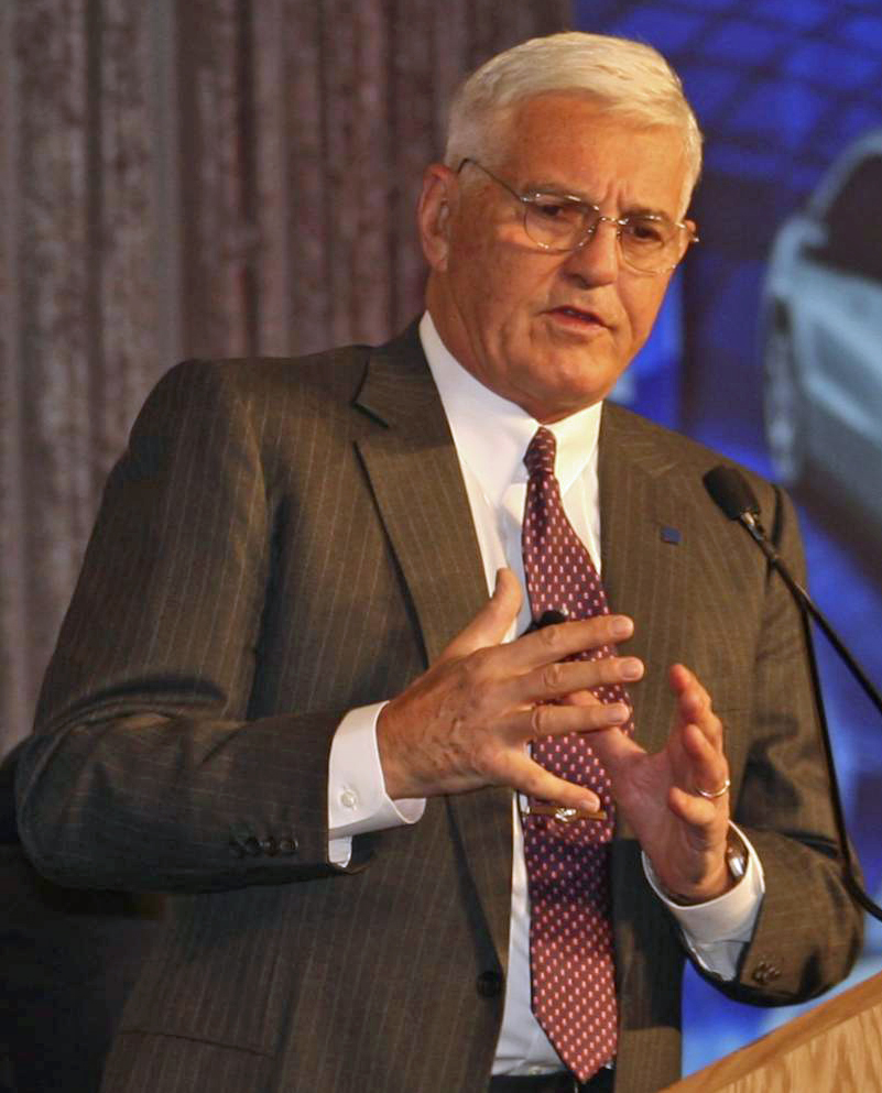 Bob Lutz speaking in Detroit, Michigan in October 2008.